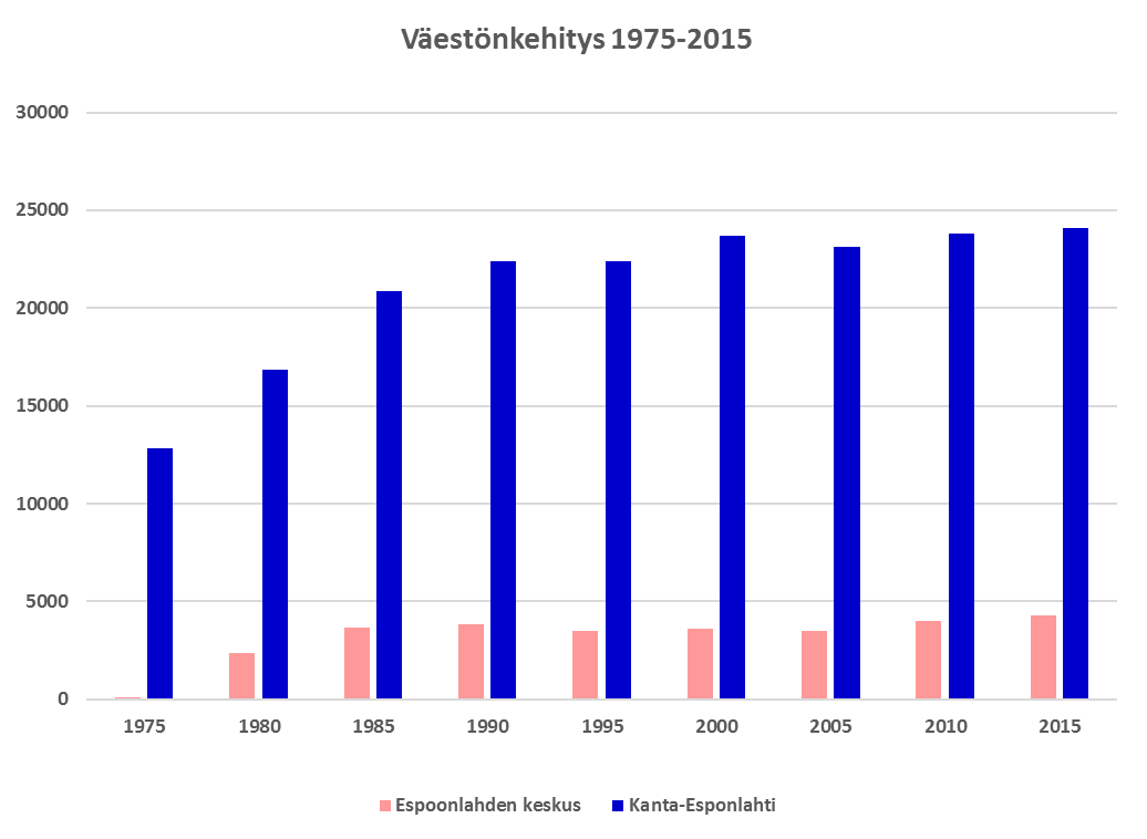 Comparison of population growth of two areas in Espoonlahti